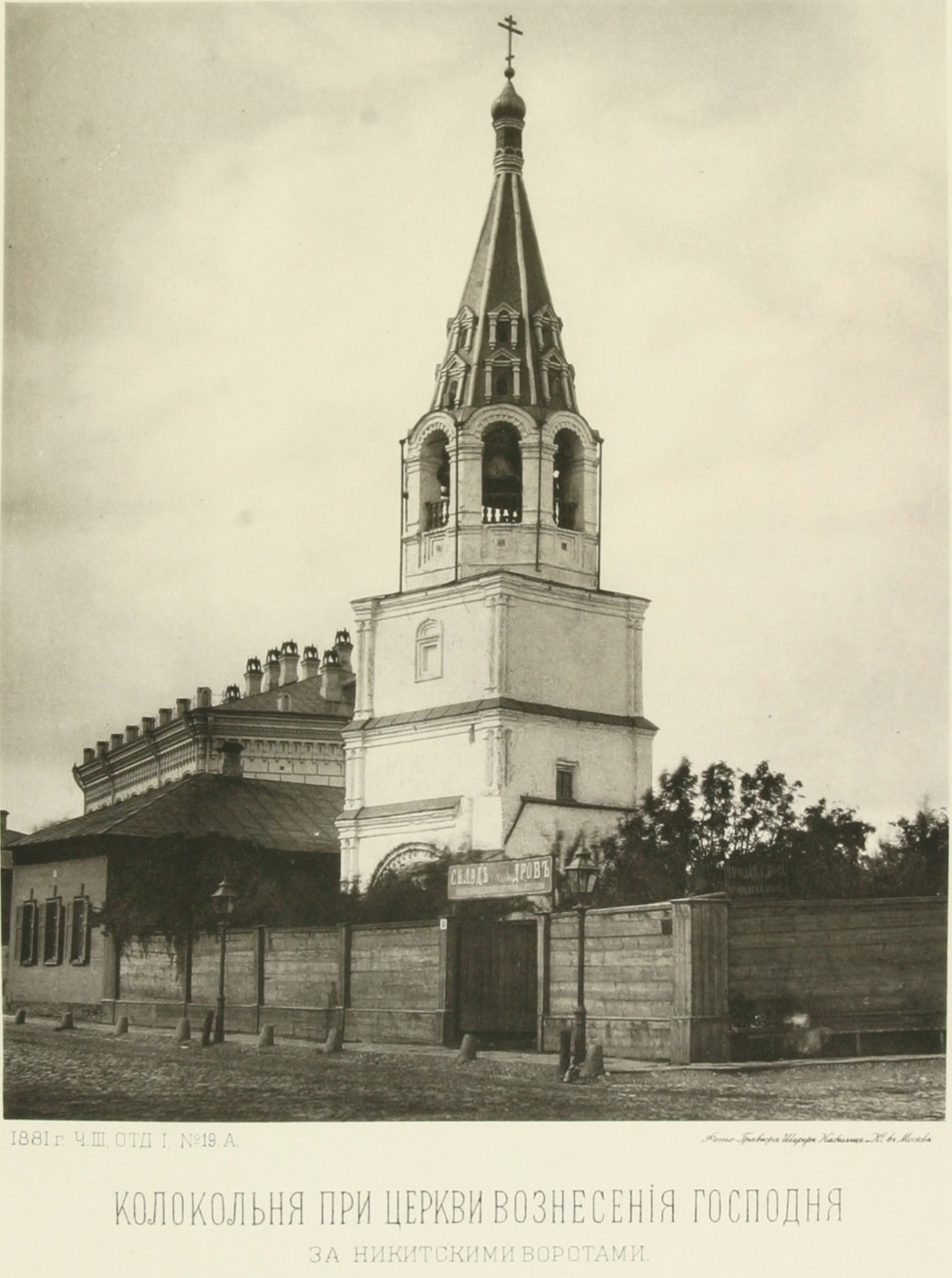 The Belltower by Great Ascension Church at Nikitsky Gates in Moscow. Demolished 1937.